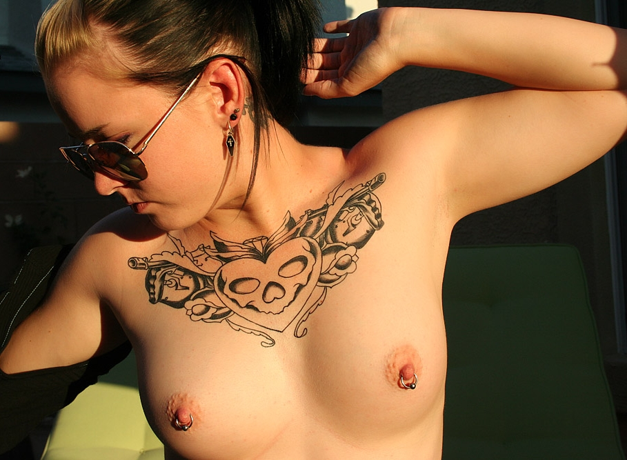 Chase